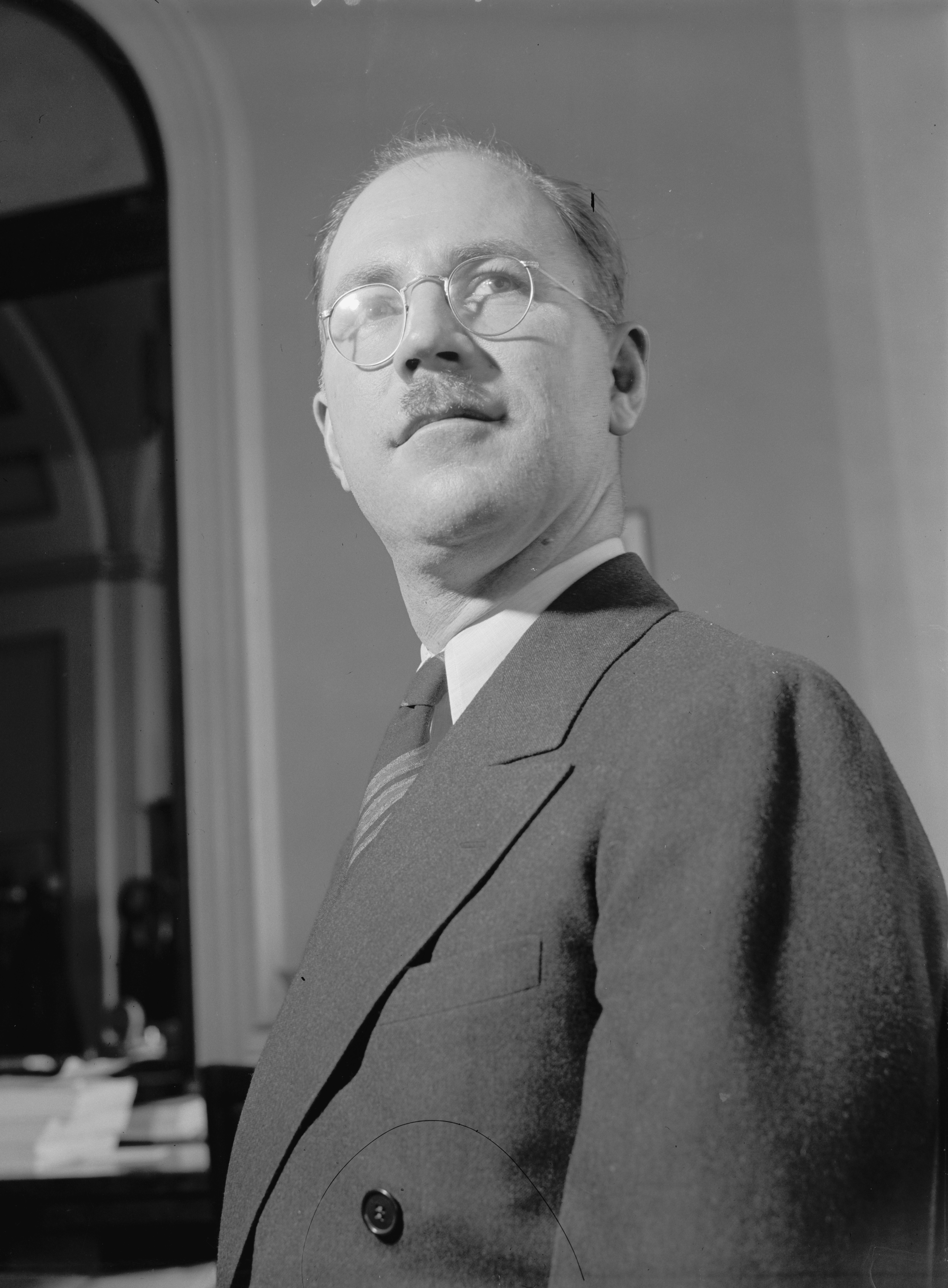 Title: Informal photo of Rep. Phil Ferguson, Democrat of Okla., Feb. 1940 Abstract/medium: 1 negative : glass ; 4 x 5 in. or smaller